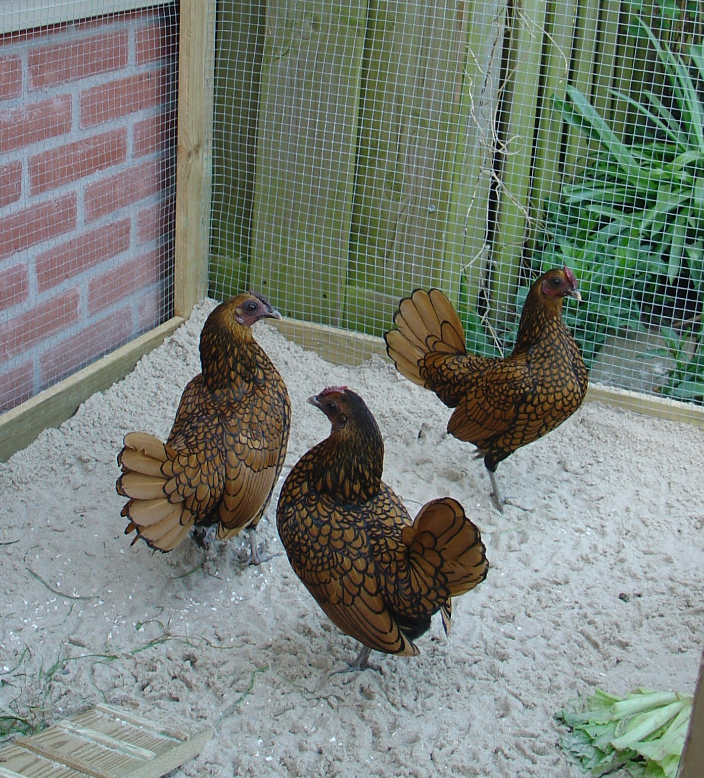 Sebright Bantams, a small breed of chickens